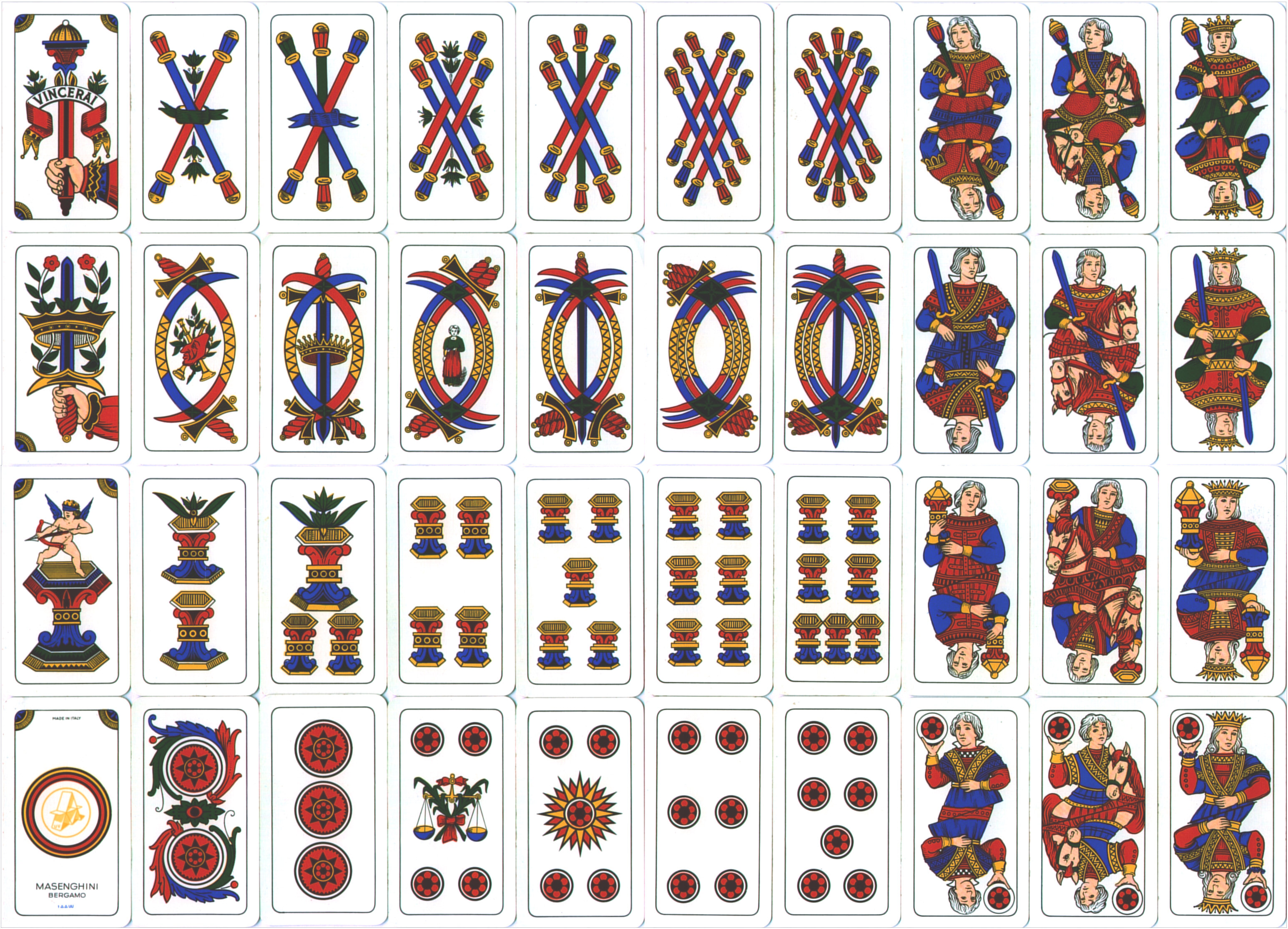 Playing cards of Bergamo, Italy